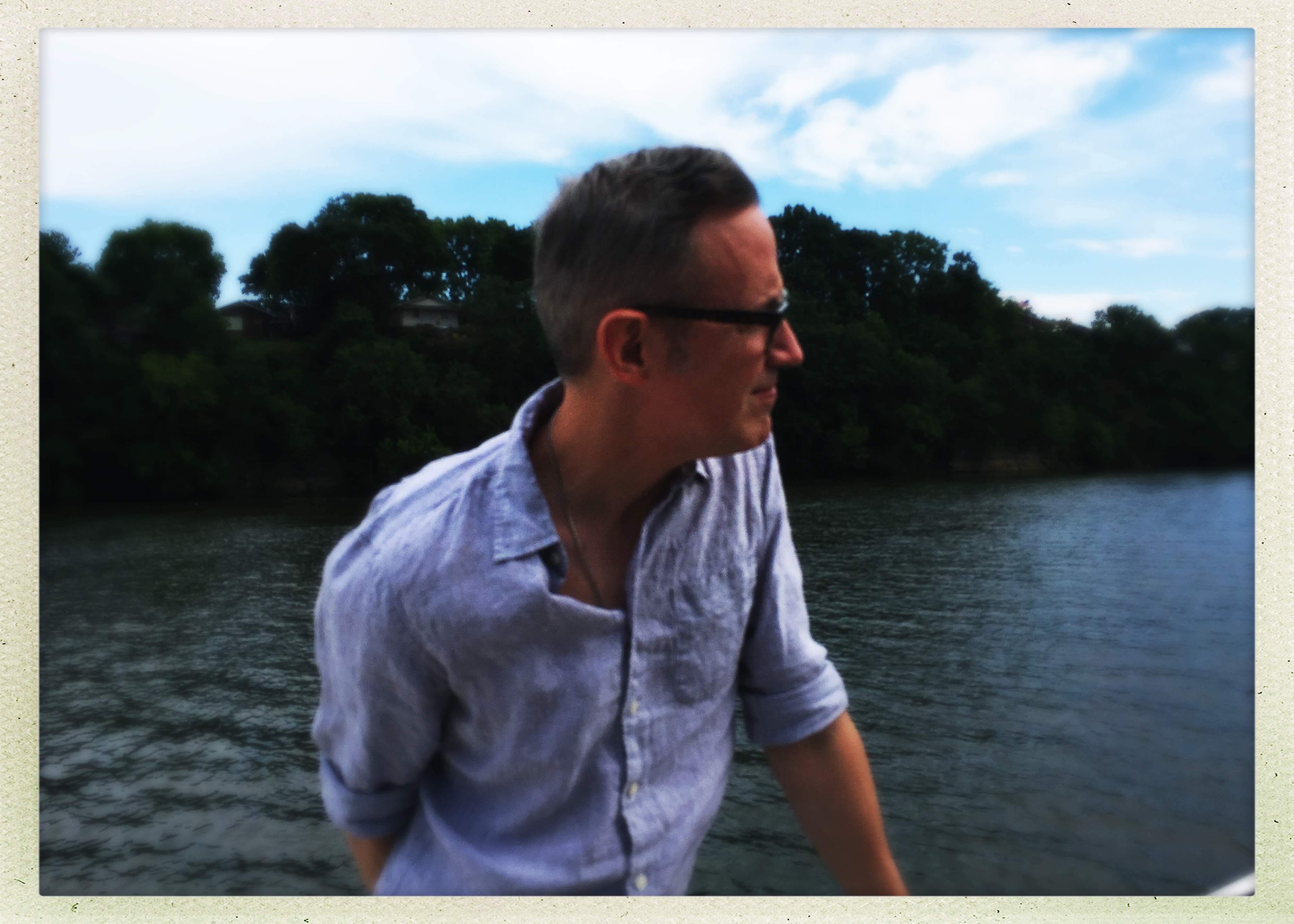 Patrick Ryan on the Cumberland River. (Photo by Ann Patchett)